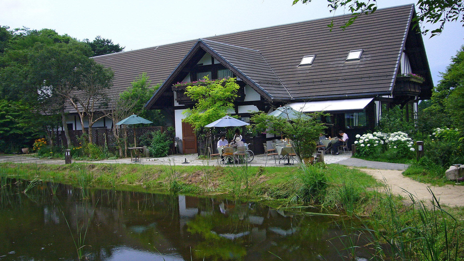 Hall of Halls Rokko in Kobe, Japan